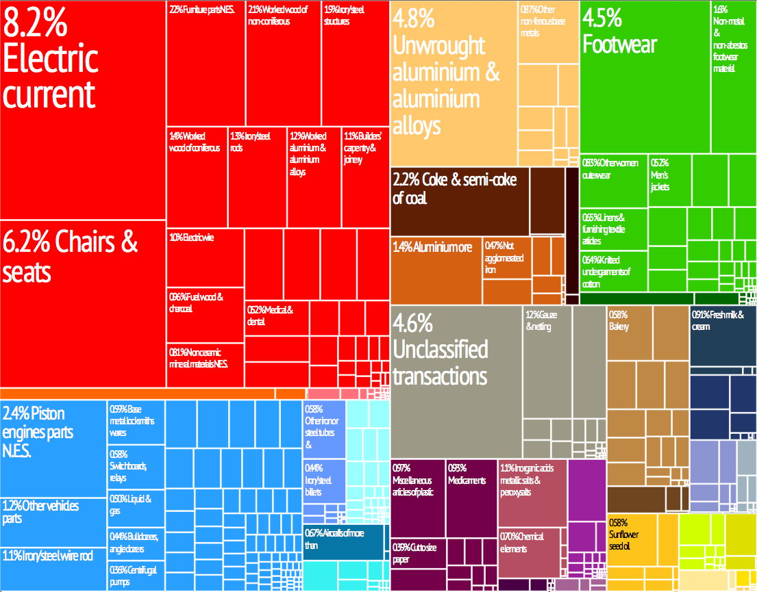 Export Trading Treemap. From MIT/Harvard Atlas of Economic Complexity